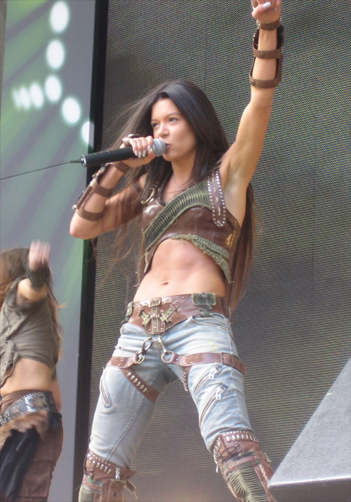 Ruslana's concert at the Waldbühne in Berlin, 23 June 2006.